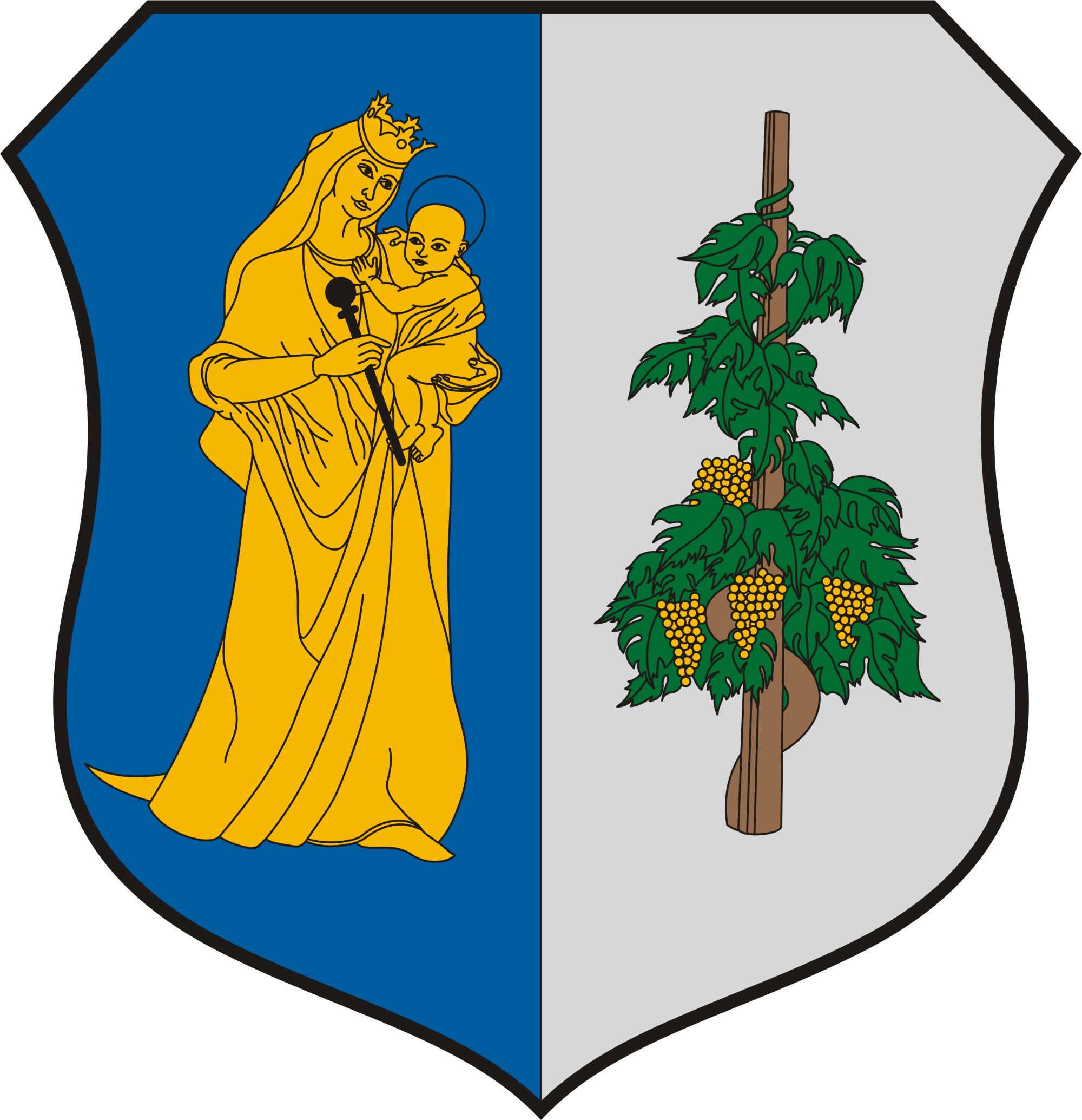 Coat of arms of Gősfa, Hungary